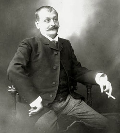 French writer Georges Courteline cica 1900